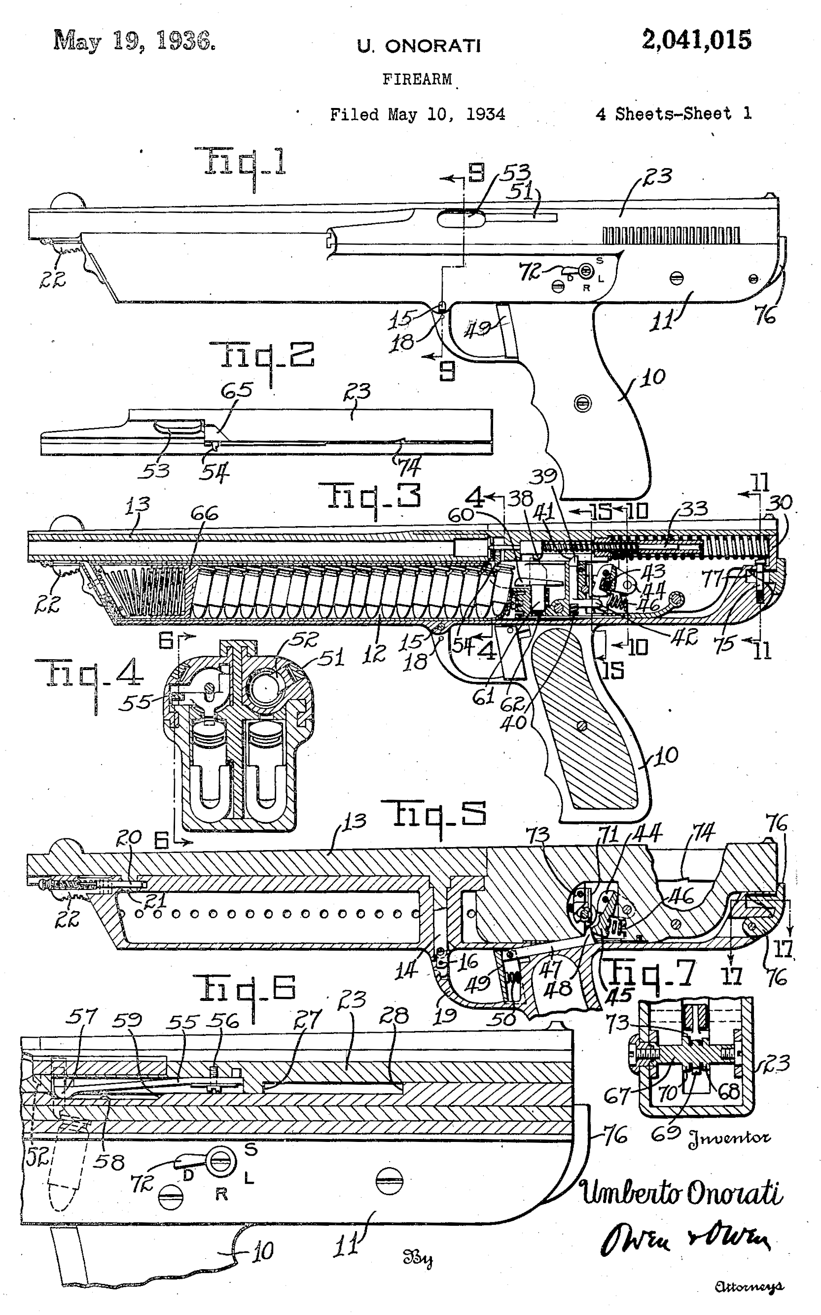 WWII italian prototype SMG